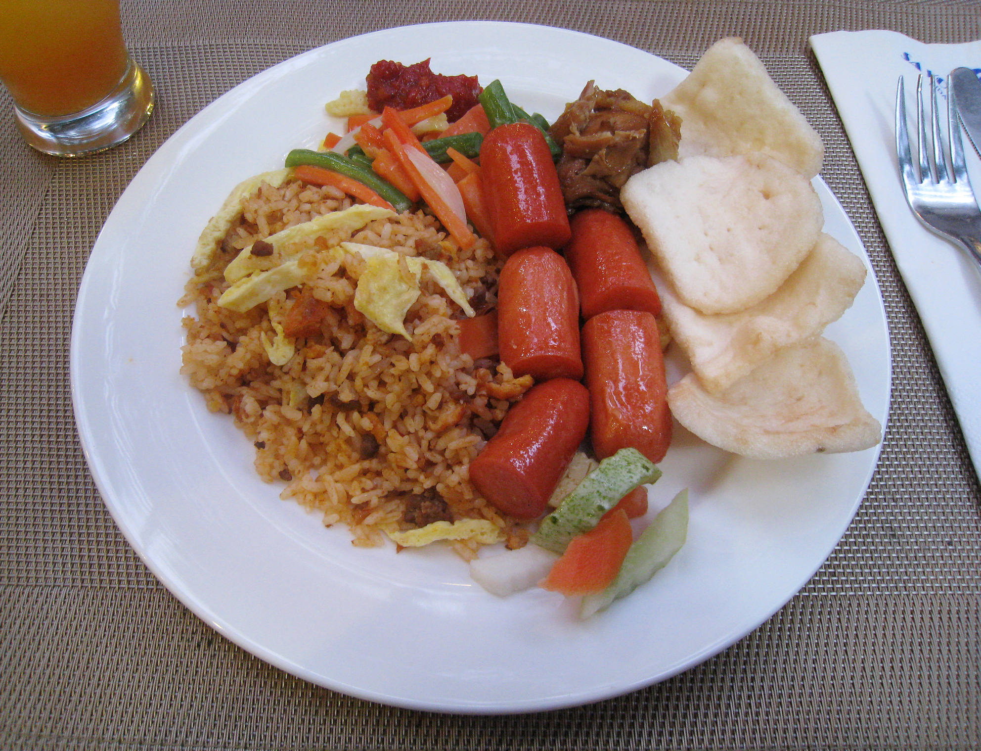 Nasi Goreng (Indonesian style fried rice) breakfast with beef sausages in Savoy Homann Bidakara Hotel in Bandung, West Java, Indonesia. Nasi goreng also served with egg, vegetables, chicken in soy sauce, pickles, sambal and krupuk udang (prawn cracker).